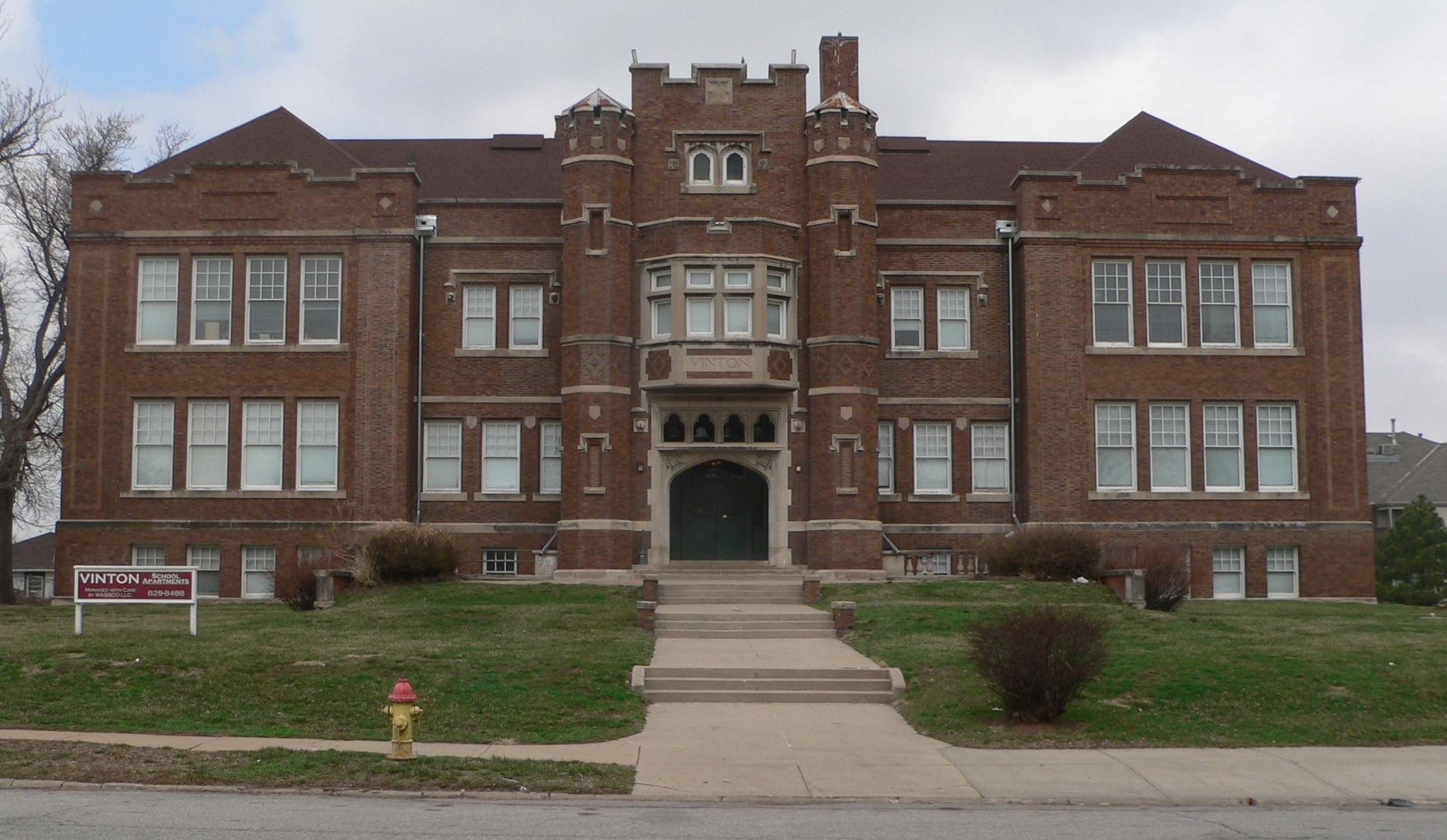 Vinton School, now Vinton School Apartments, located at 2120 Deer Park Boulevard in Omaha, Nebraska; seen from the south, across Deer Park.